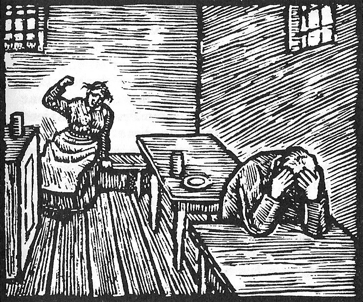 The Empty Tavern